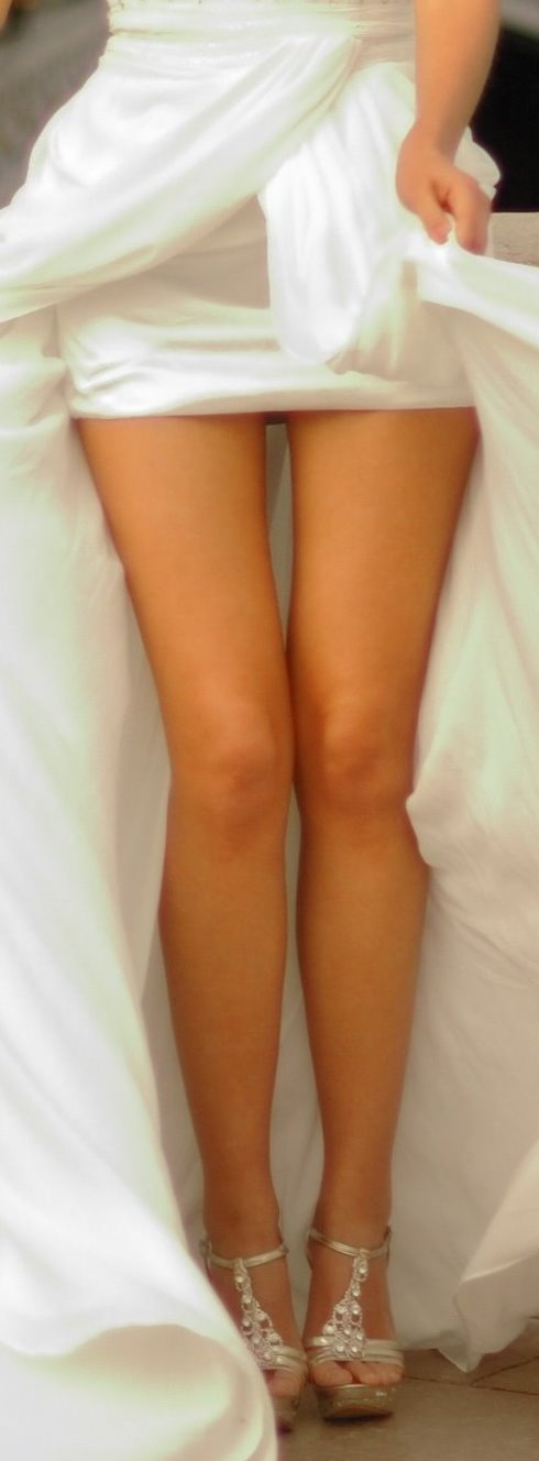 Thigh gap